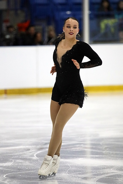 Alicia Pineault at the 2018 Autumn Classic International - SP